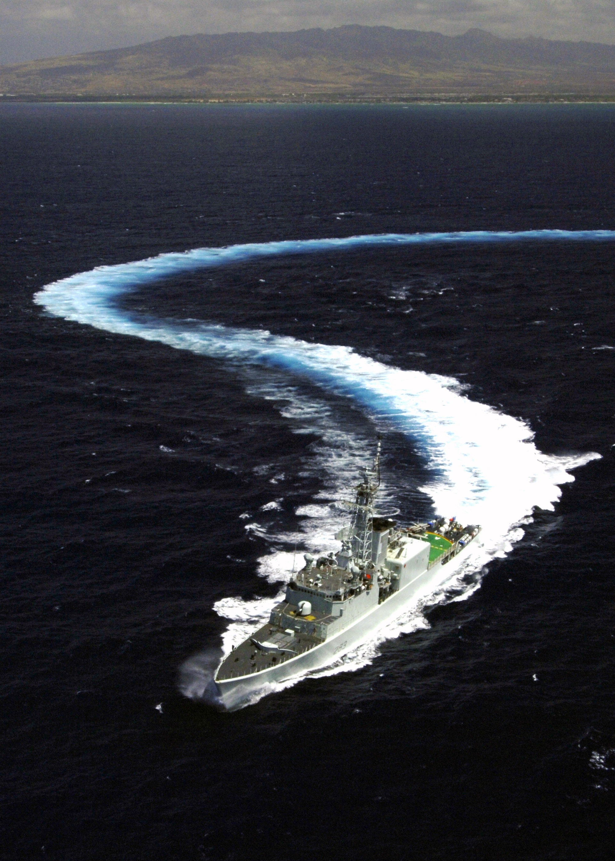 The Canadian Iroquois-class destroyer HMCS Algonquin (DDH 283) departs from Pearl Harbor, Hawaii to participate in exercise Rim of the Pacific (RIMPAC) 2006. Eight nations are participating in RIMPAC, the world's largest biennial maritime exercise. Conducted in the waters off Hawaii, RIMPAC brings together military forces from Australia, Canada, Chile, Peru, Japan, the Republic of Korea, the United Kingdom and the United States.